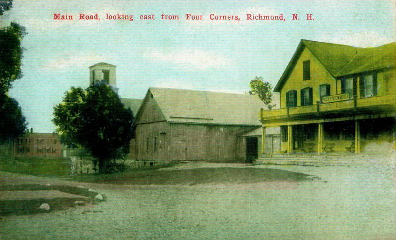 Fitzwilliam Road, looking east from Four Corners, Richmond, New Hampshire